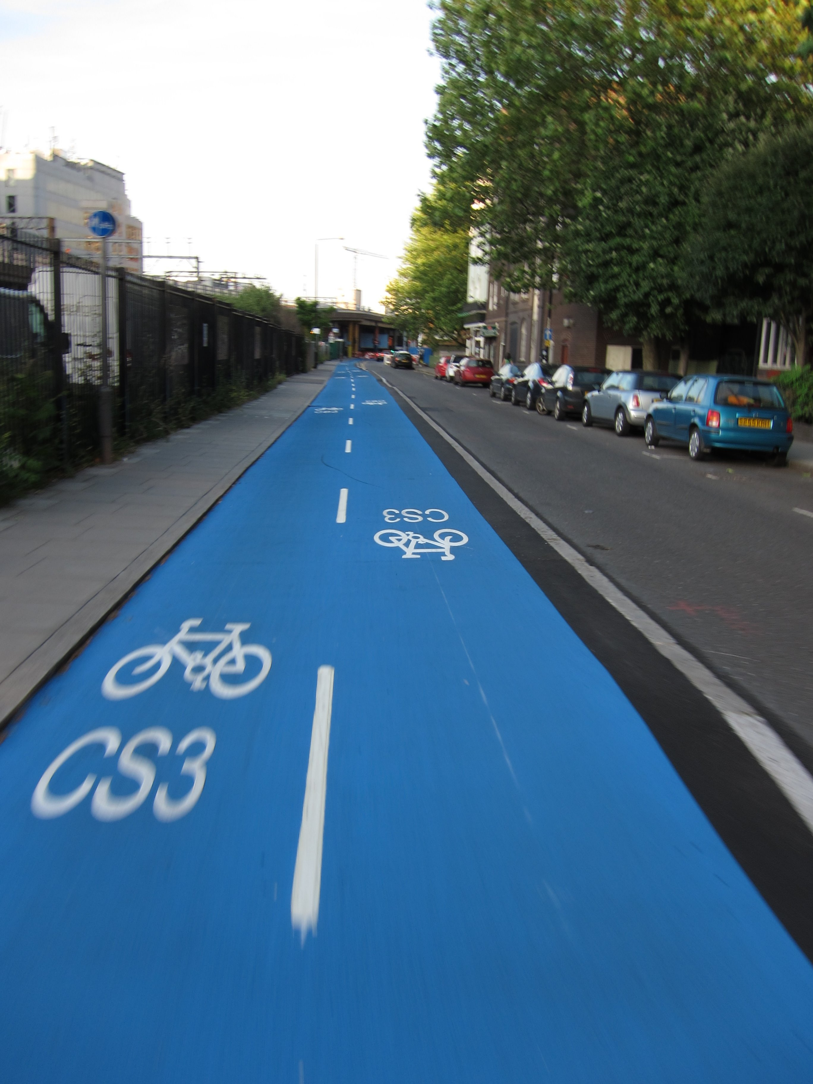 Barclays Cycle Superhighway 3, Cable Street, London